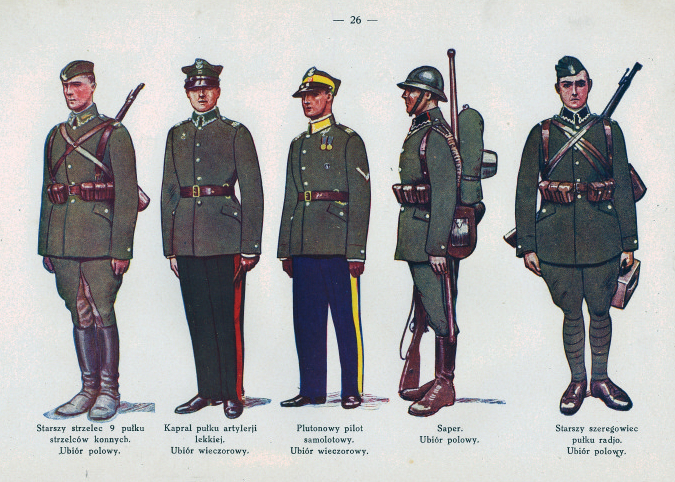 Polish military uniforms 1935